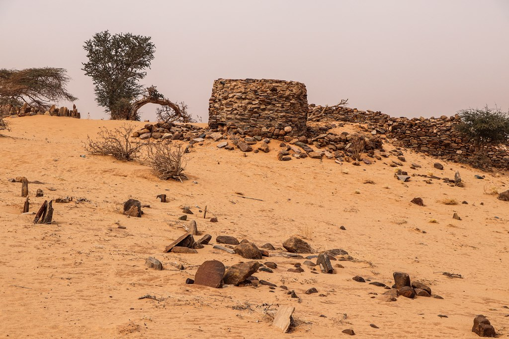 Mausoleum of al-Imam al-Hadrami at Azougui